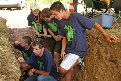 Testing done in a Soil Pit during the 2012 Envirothon Competition Soils and Land Use Test.